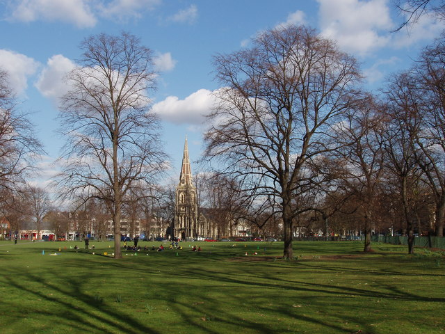 Turnham Green with leafless trees in winter, near to Chiswick, Hounslow, Great Britain. A group of children are playing just beyond the trees, and Christ Church is seen beyond the park.